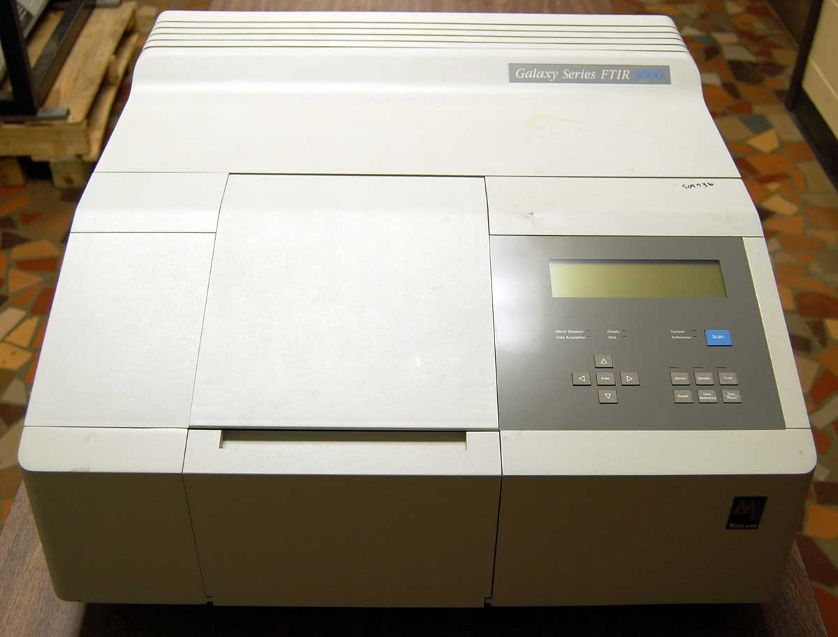 Mattson Galaxy 3000 FTIR spectrometer (exterior view).